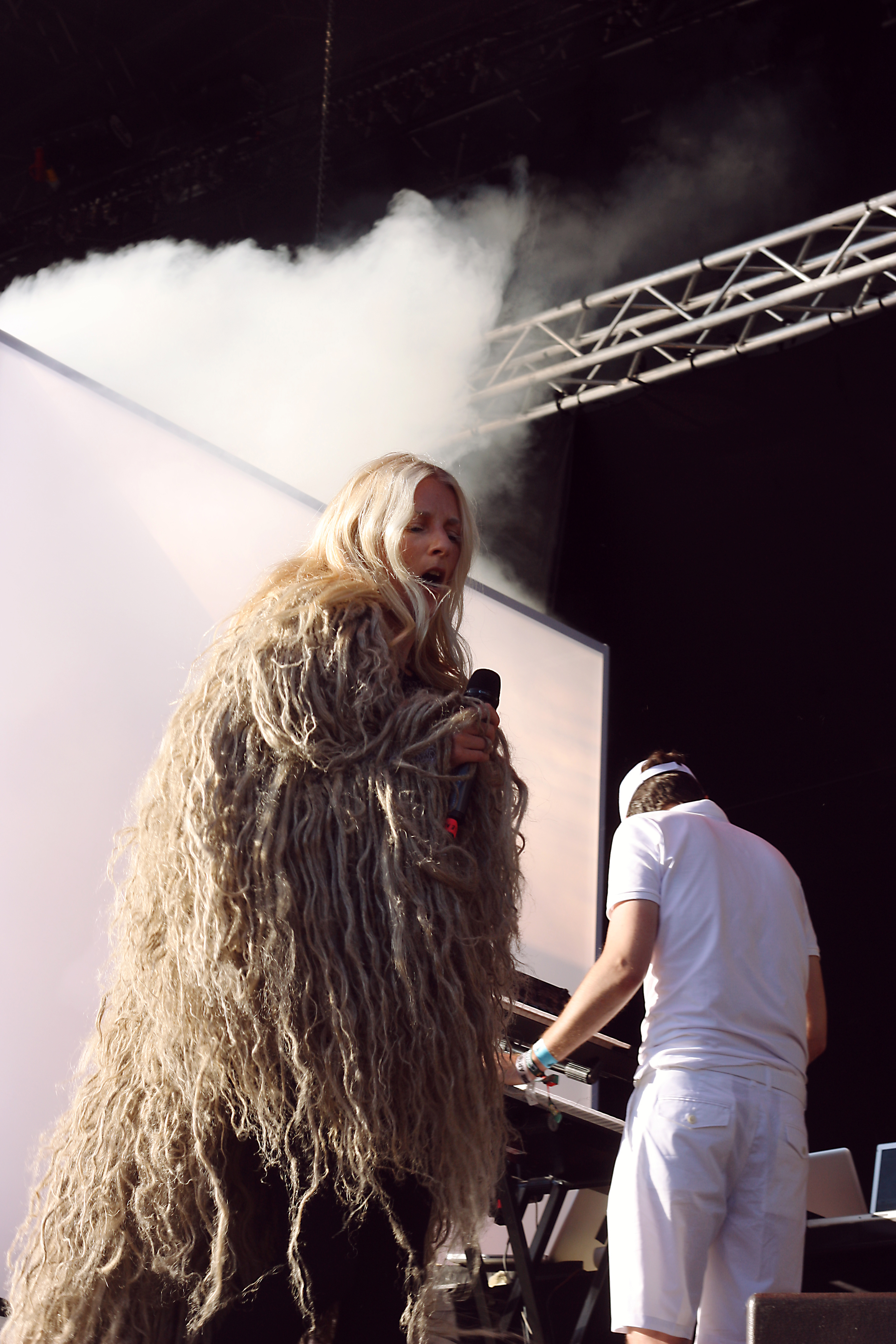 iamamiwhoami performing live at Stockholm Music & Arts Festival in 2012.